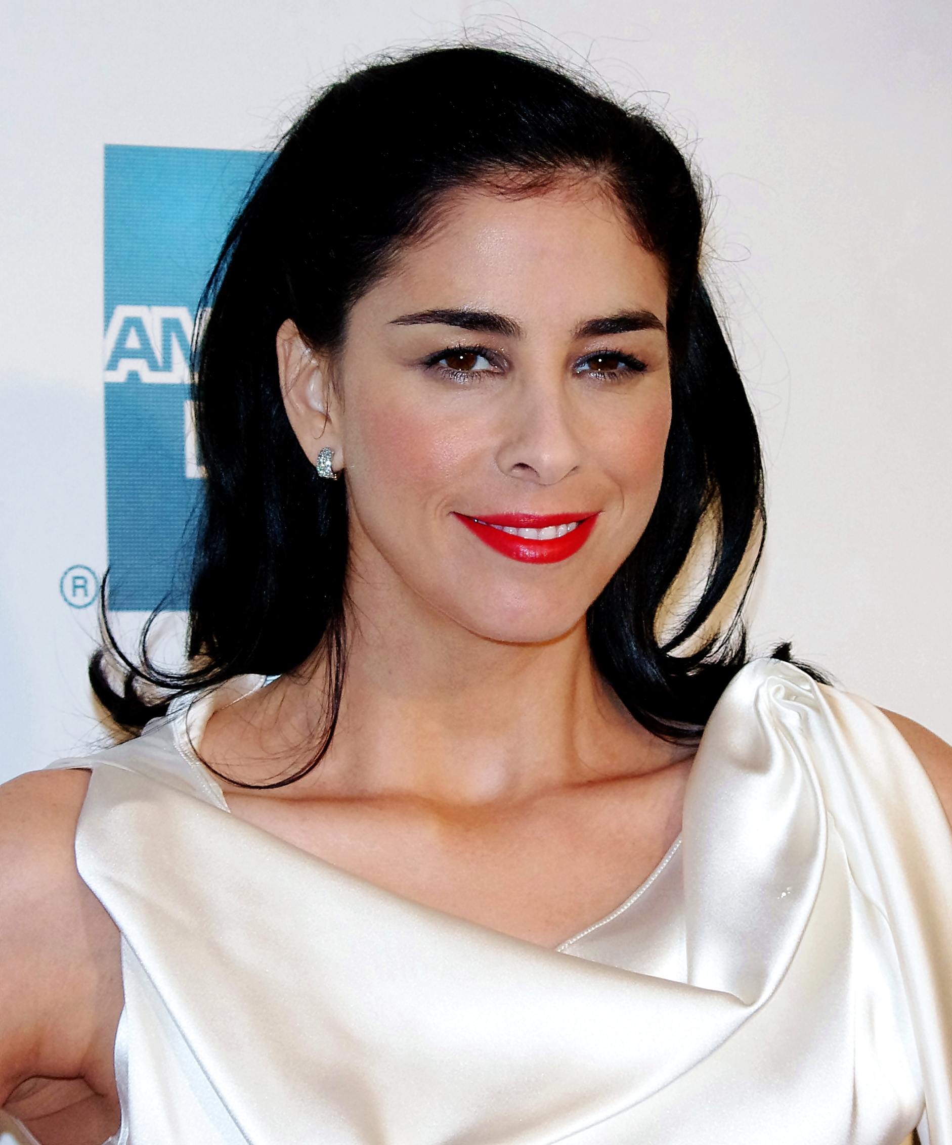 Sarah Silverman at the 2012 Tribeca Film Festival.